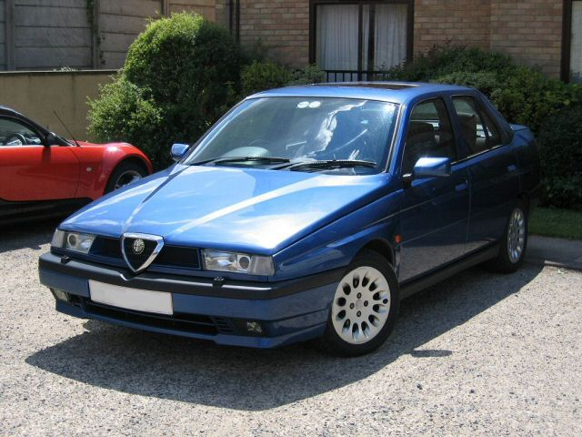 1996 Alfa Romeo 155 2.0 Twin Spark 'Widebody'